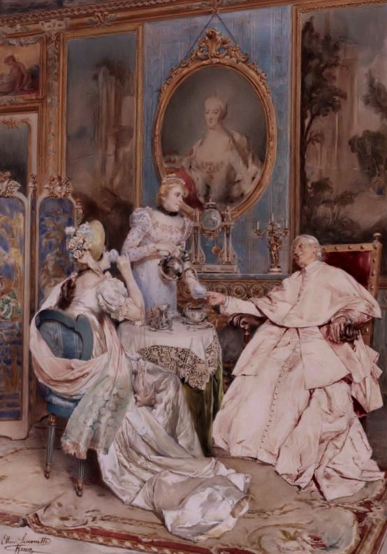 The Afternoon Tea